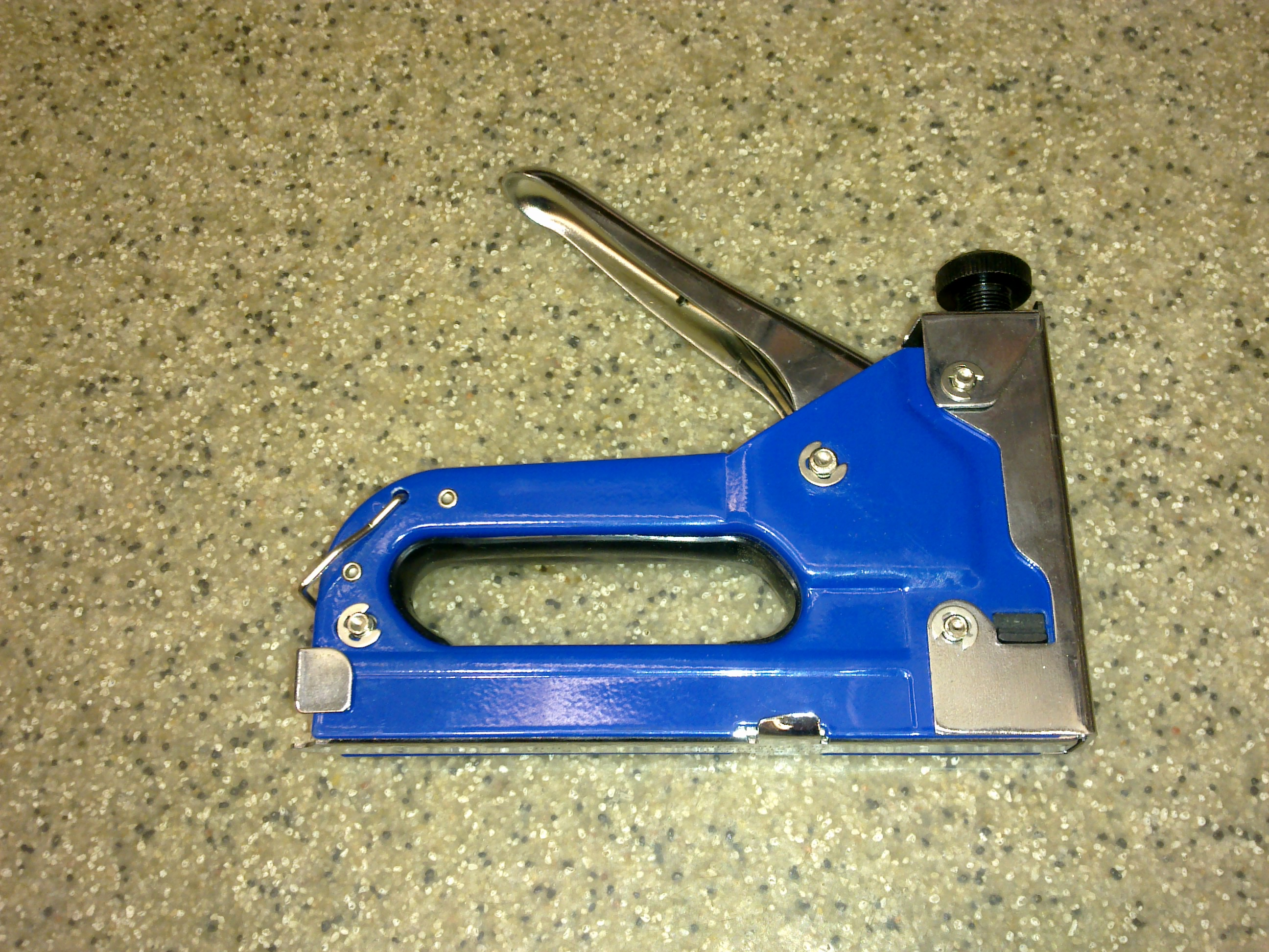 stapler